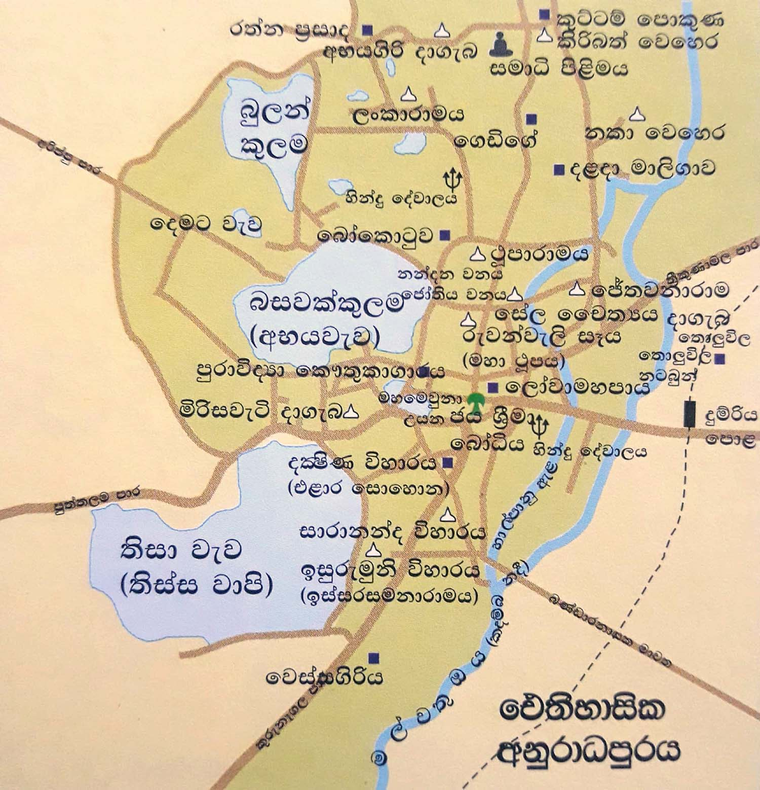 ancient city map